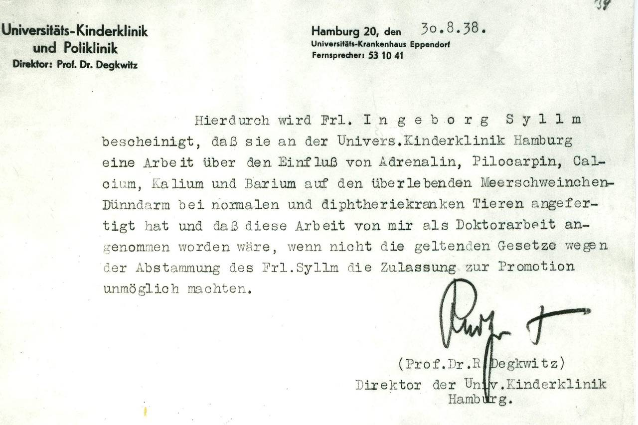 The original 1938 letter from Dr. Rapoport's professor saying she has submitted a doctoral dissertation that would be acceptable ‘if the current laws regarding Fräulein Syllm’s ancestry didn’t make it impossible for her to be allowed to receive a doctorate.’.